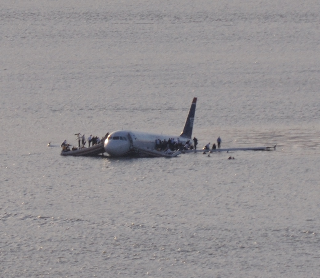 Photo of US Airways Flight 1549 after crashing into the Hudson River in New York City, United States.